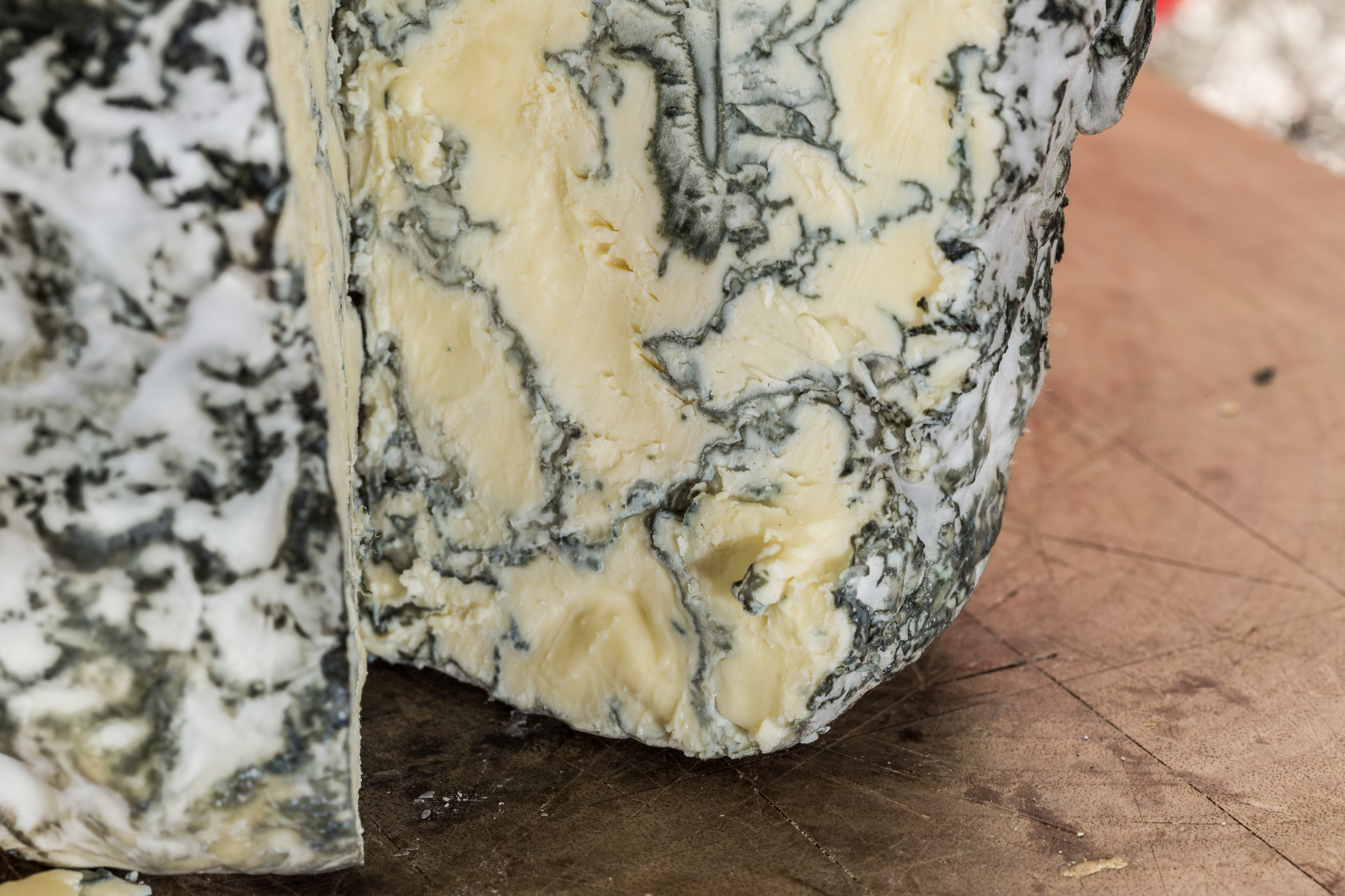 Blue cheese from raw milk of Jersey cattles, aged 5 to 8 weeks Origin Toggenburg, St. Gallen - Maître fromager affineur Willi Schmid, Städtlichäsi, Lichtensteig, Toggenburg, 2010 Awards; World's Best Jersey Cheese 2010